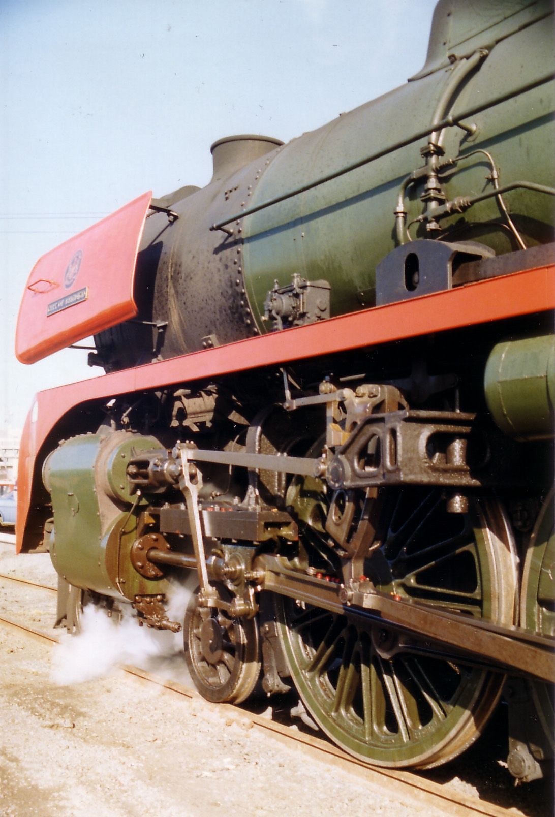 Detail of valve gear of Victorian Railways R class locomotive R 766